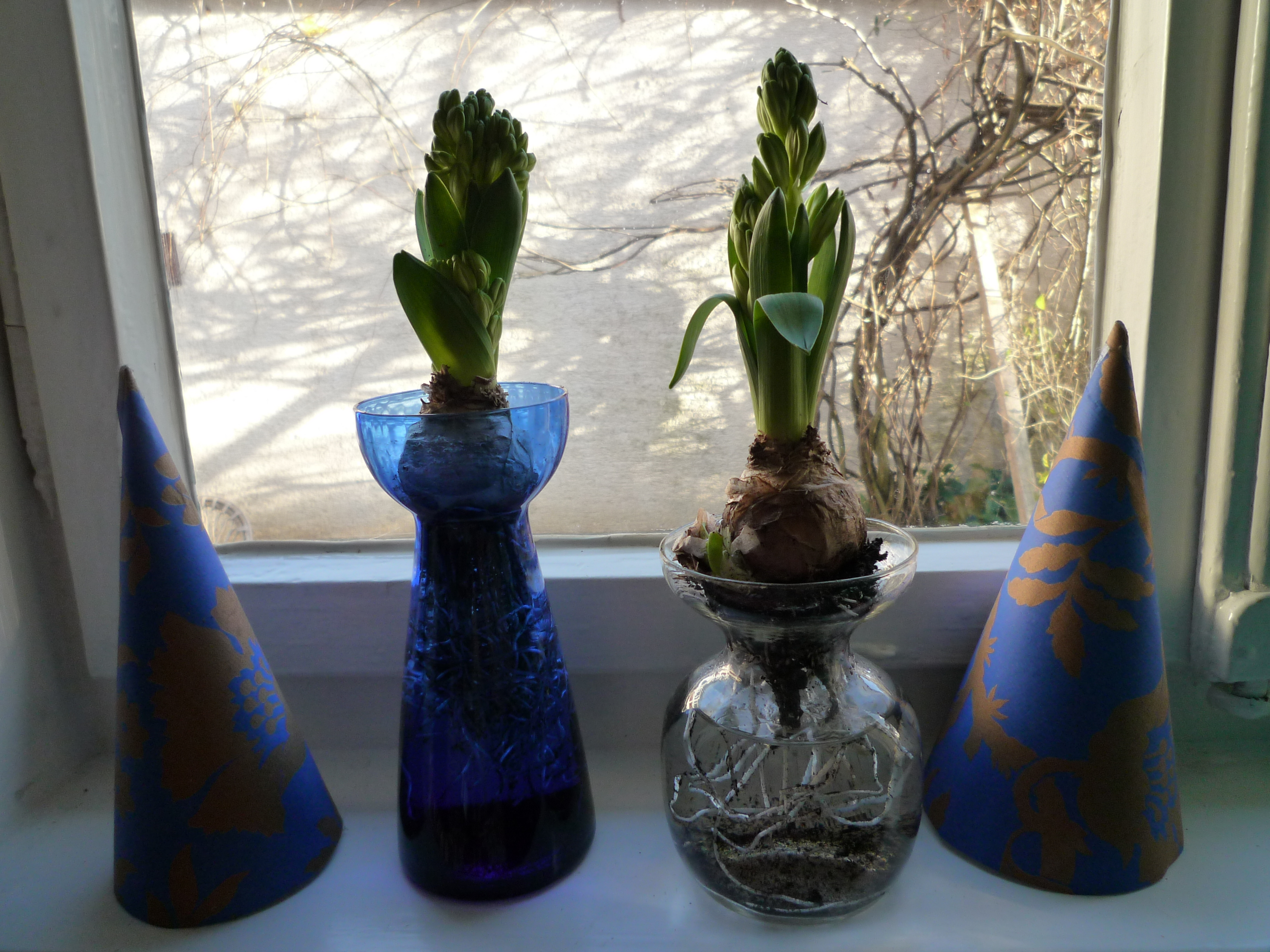 Hyacinth vases